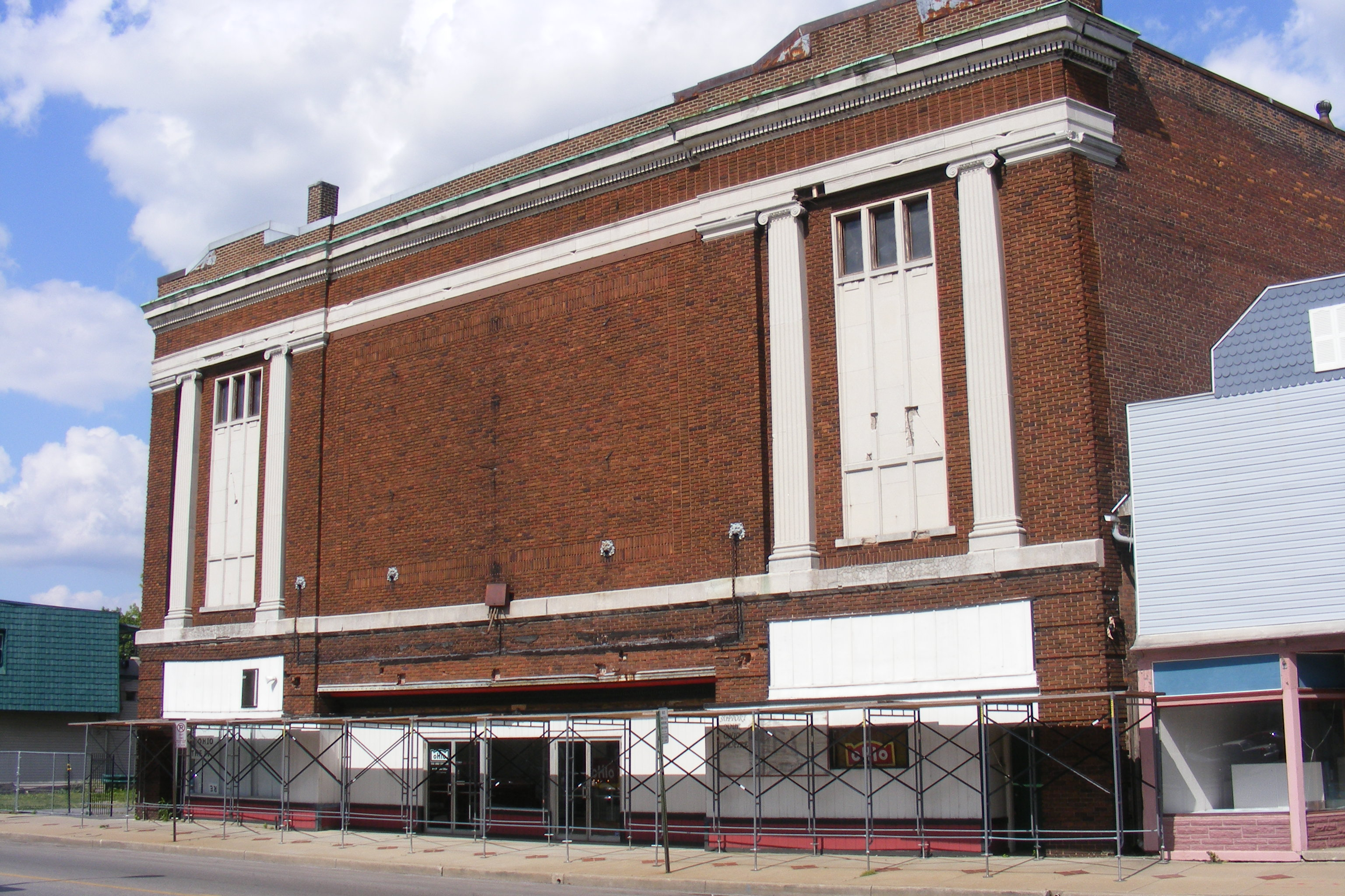 West face of the NRHP-listed Ohio Theatre in Toledo, Ohio.